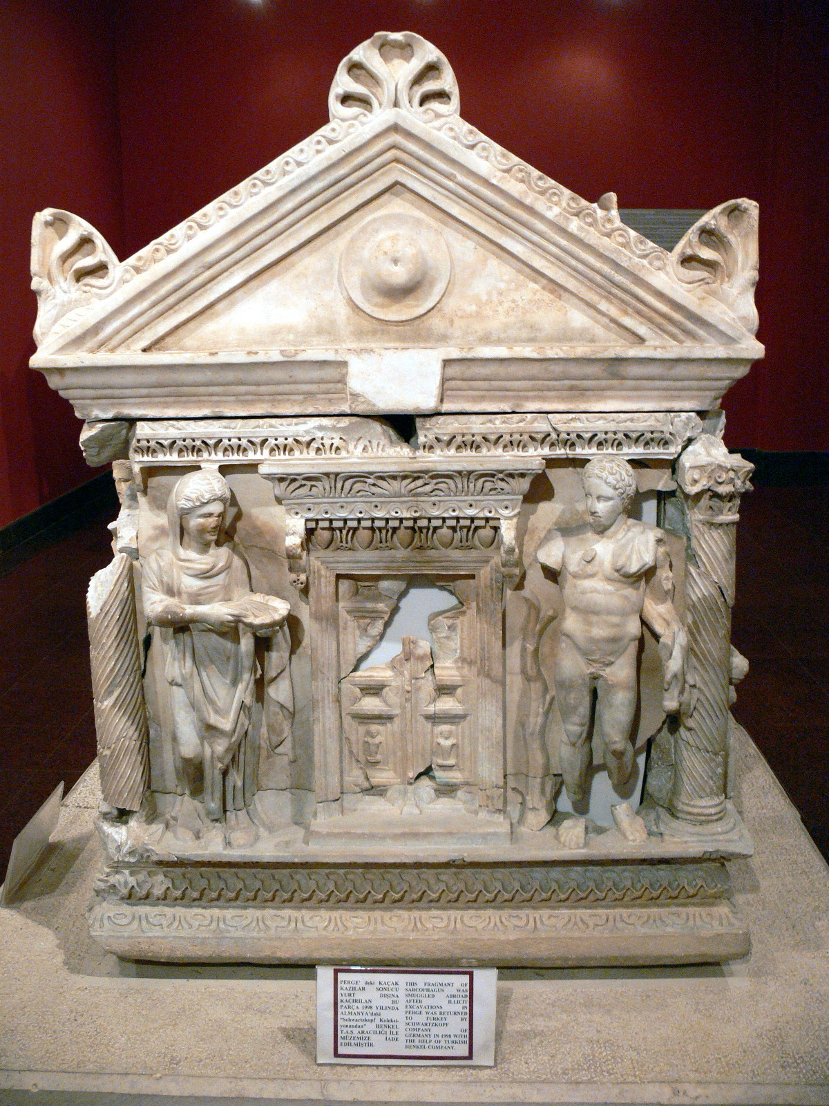 Antalya Archaeological Museum. Ancient Roman sarcophagus ( 2nd century AD ): Front showing the door to Hades.